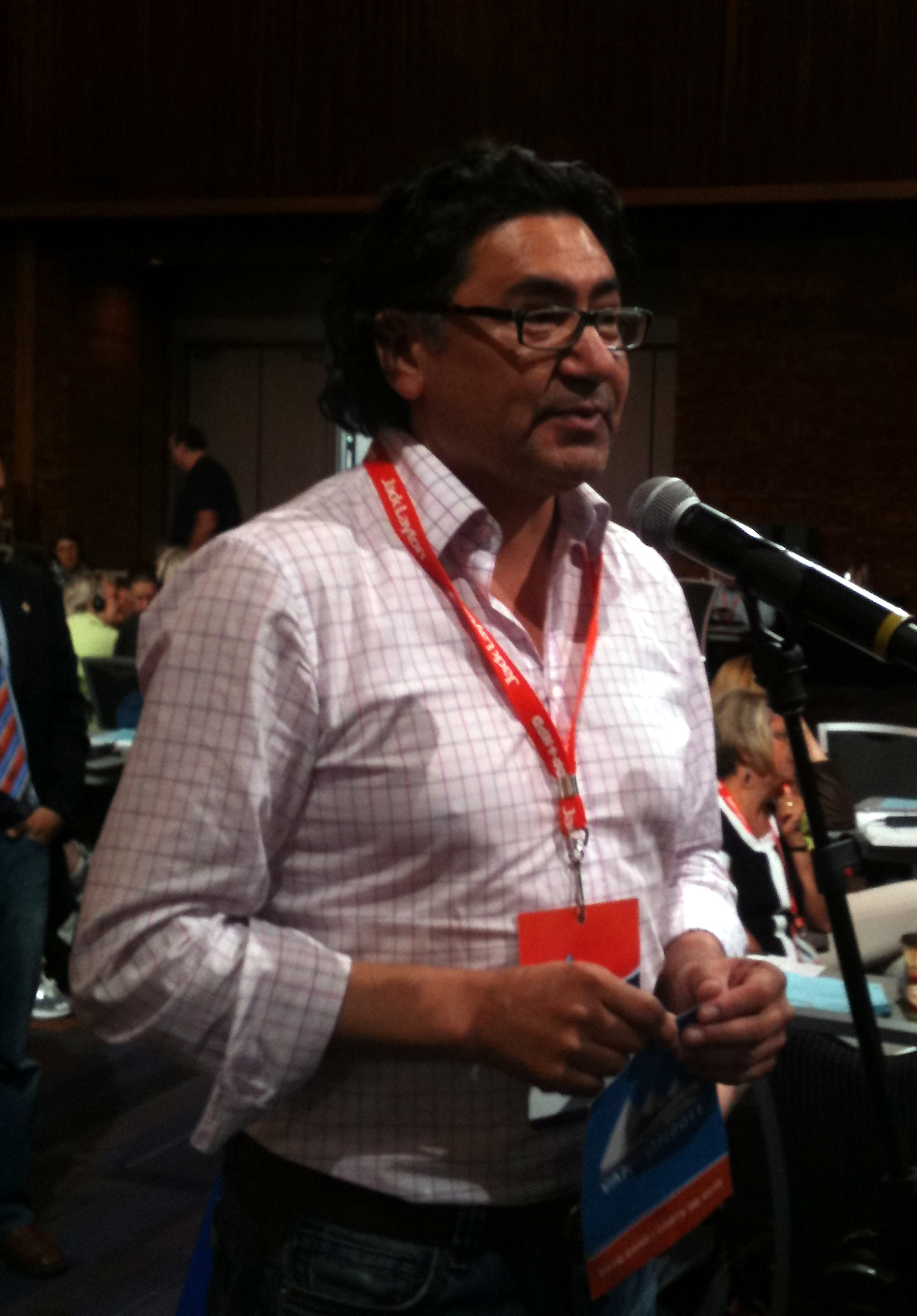 Romeo Saganash, NDP member of Parliament for Abitibi—Baie-James—Nunavik—Eeyou, Quebec, speaks at the NDP Federal Convention, Vancouver, June 2011.